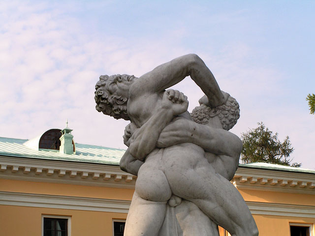 Arkhangelskoye